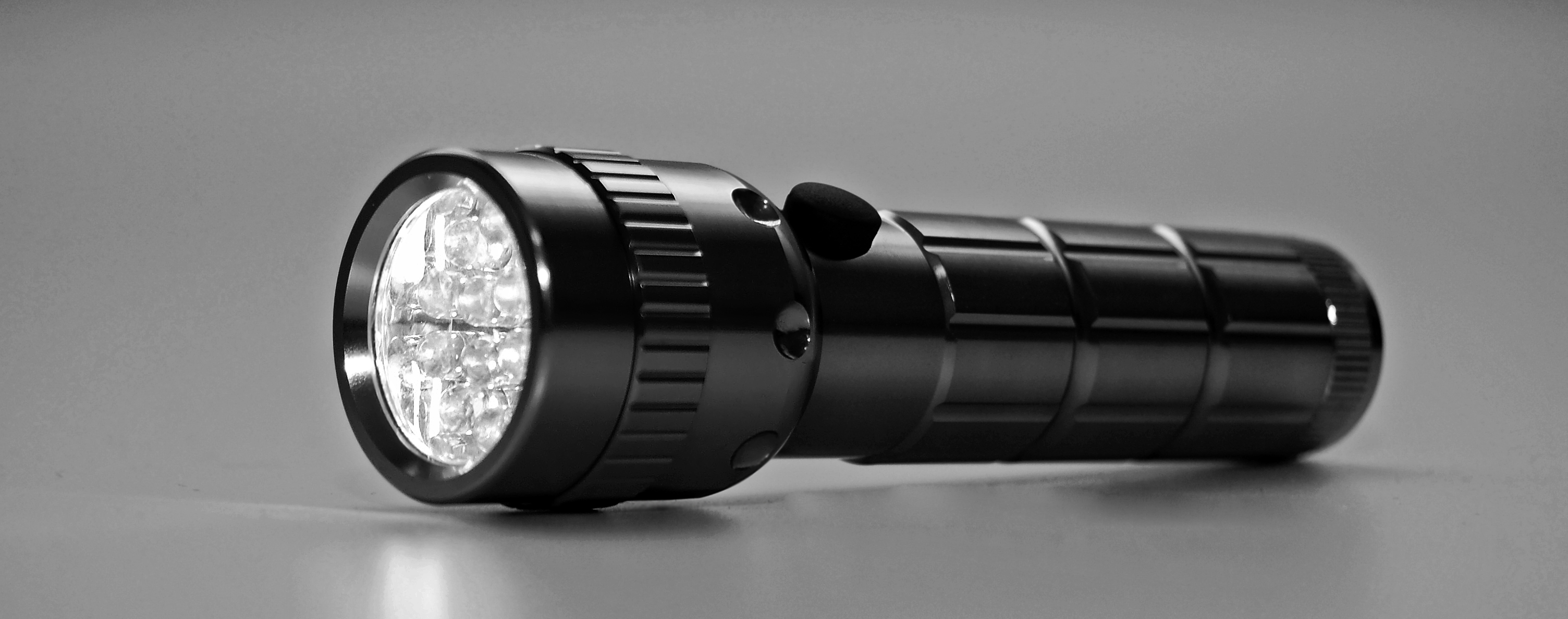 A flashlight